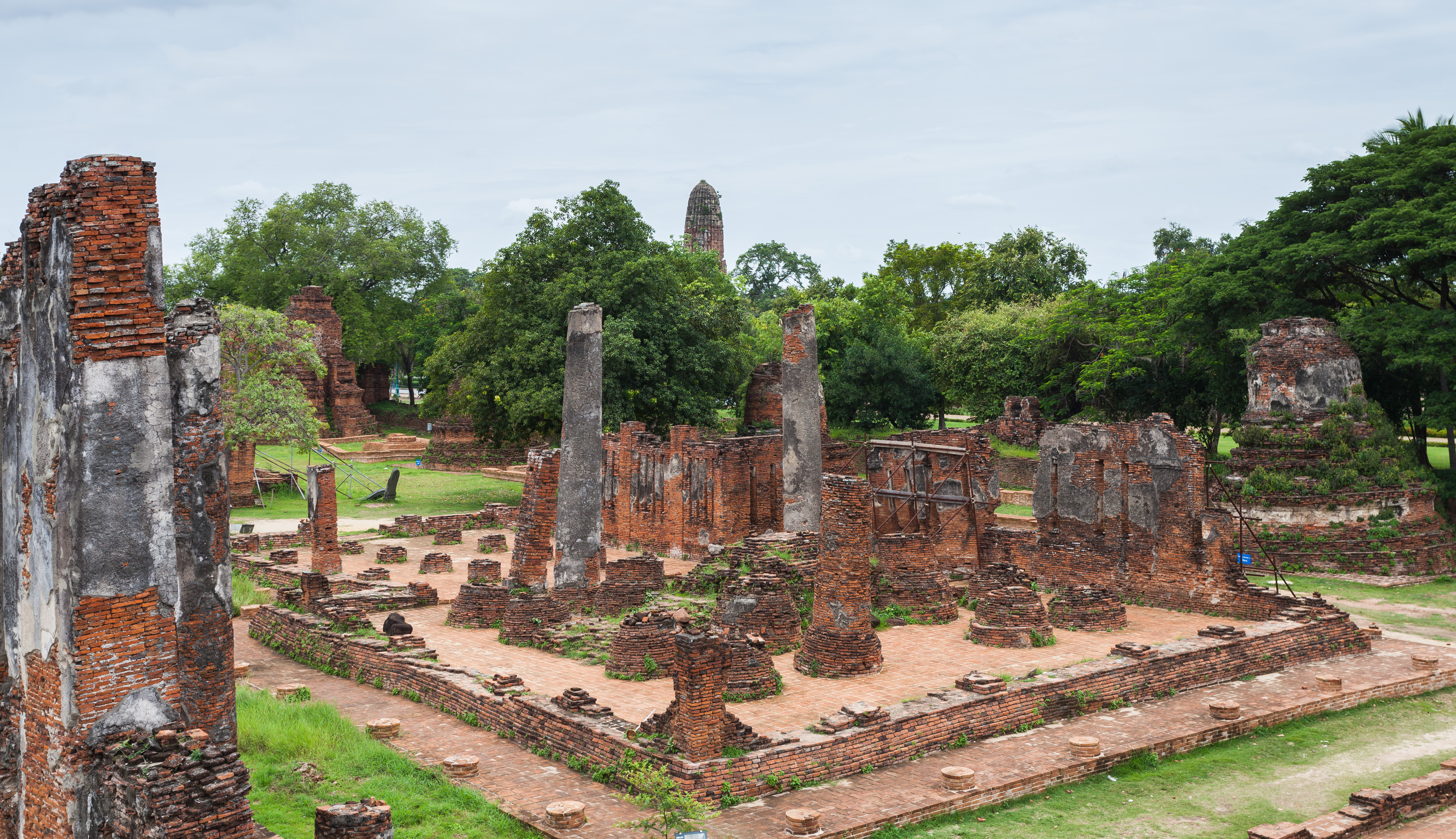 Phra Si Sanphet temple, Ayutthaya, Thailand